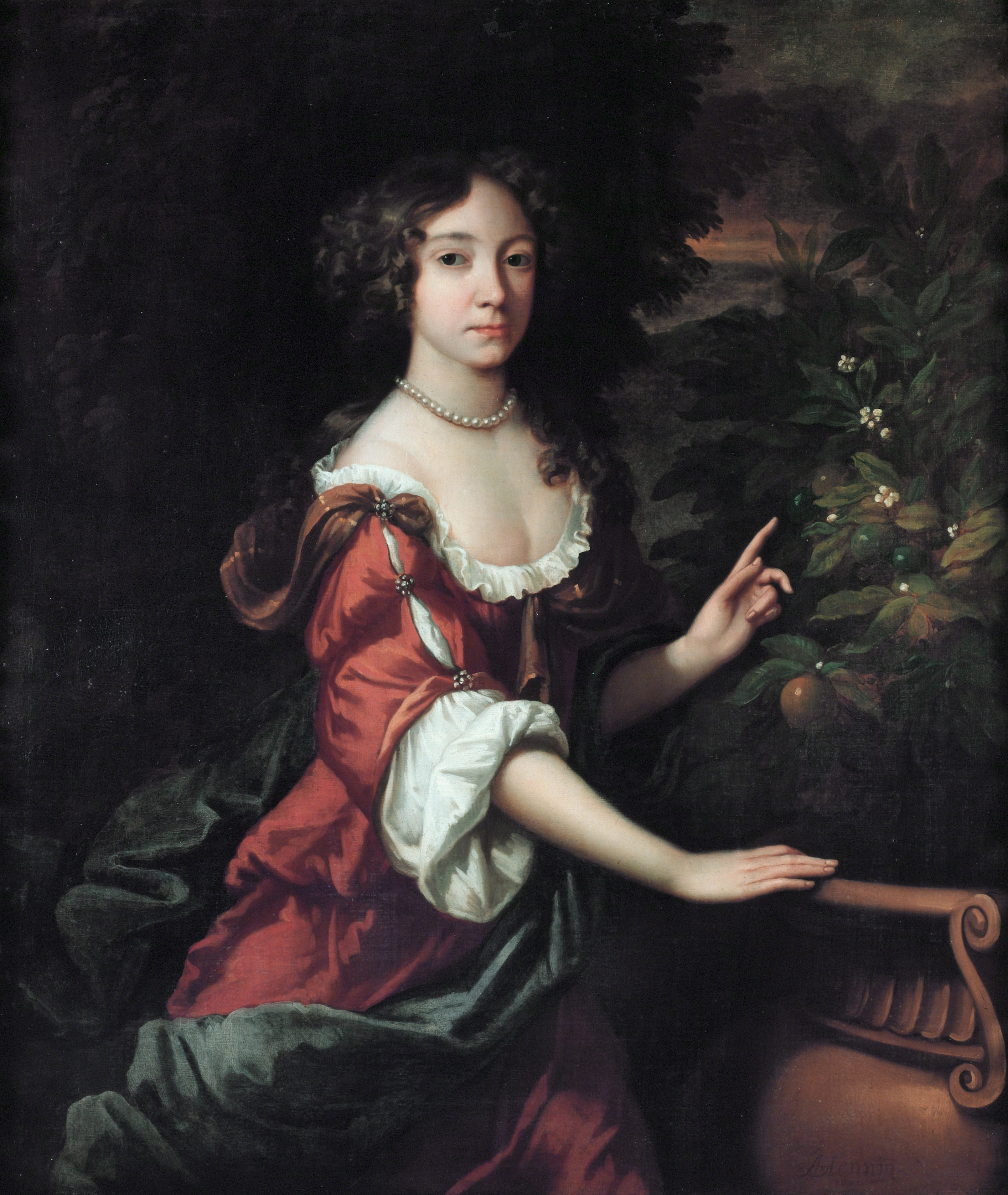 Mary II Stuart (1662-1695) oil on canvas 114,00 x 79 cm signed b.r.: AHennin / 1677